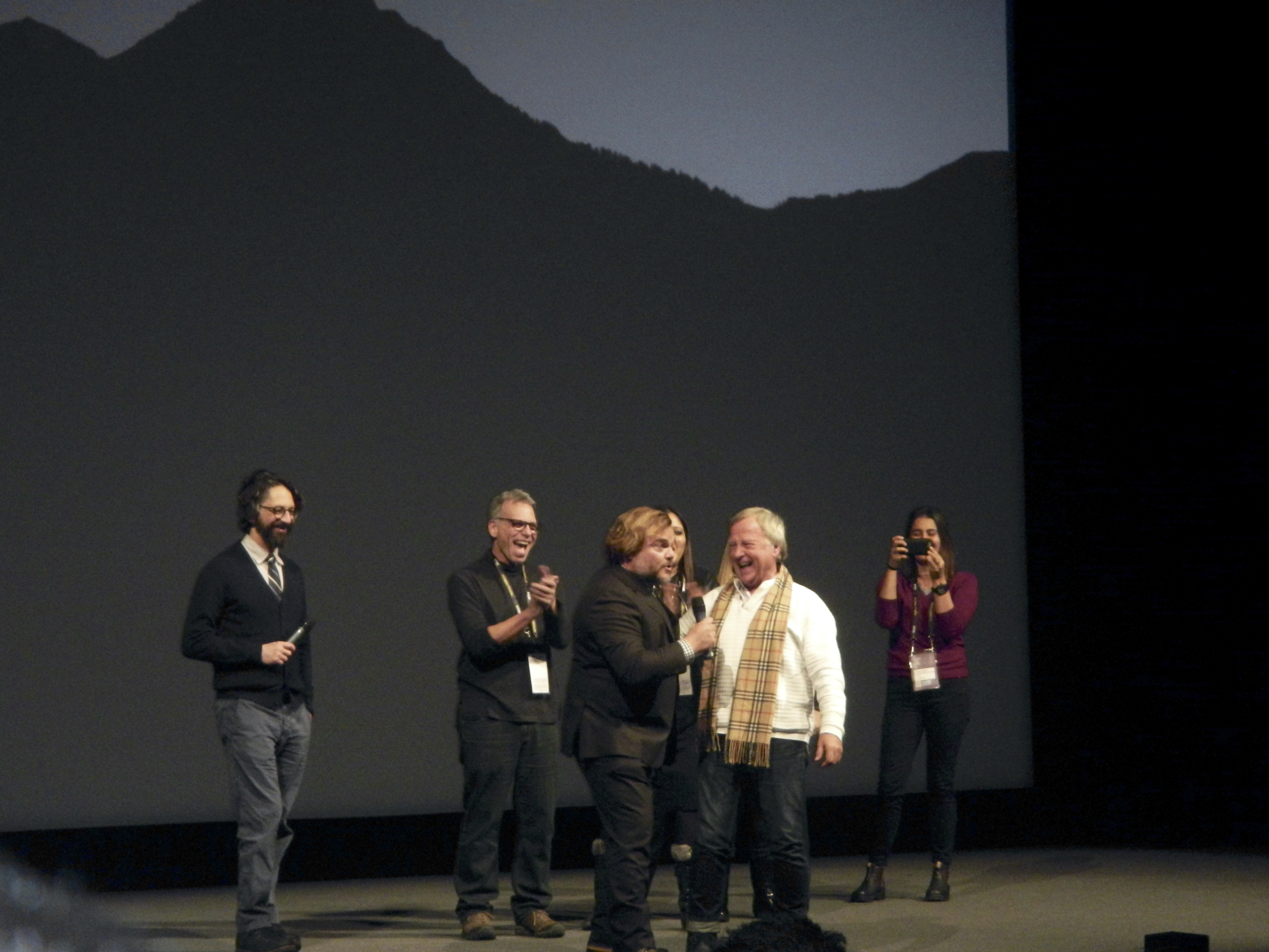 Jack Black and Jan Lewan at Sundance Film Festival 2017 for debut of “The King Of Polka”